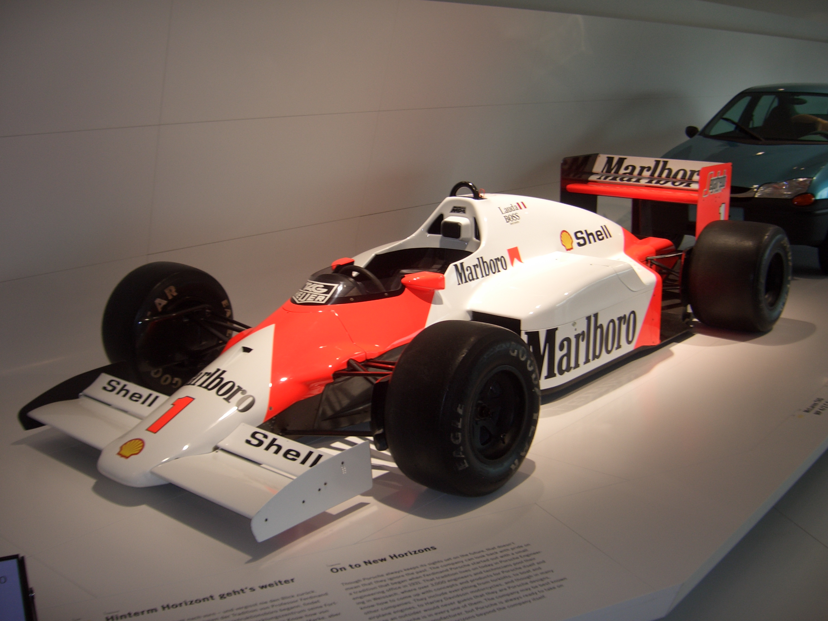 see filename for despcription - seen at PORSCHE MUSEUM in Stuttgart, Germany